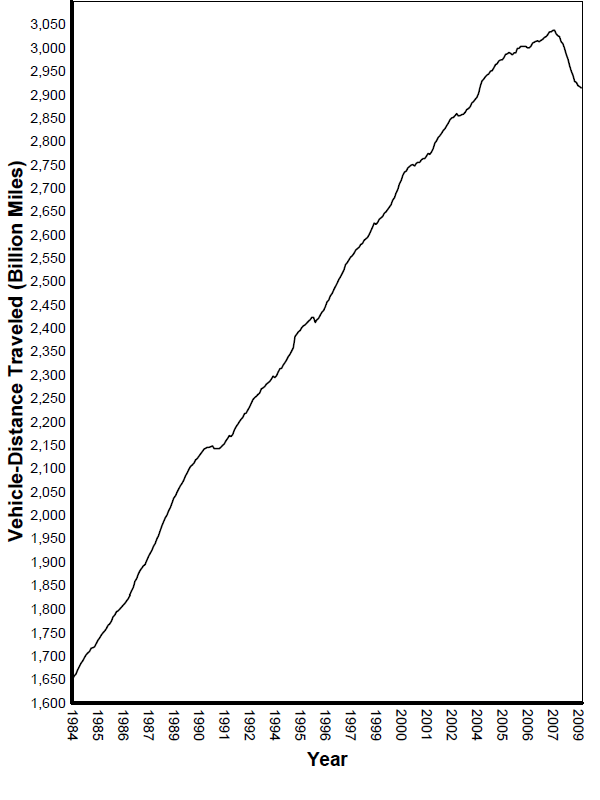 Vehicle miles travelled on US roads